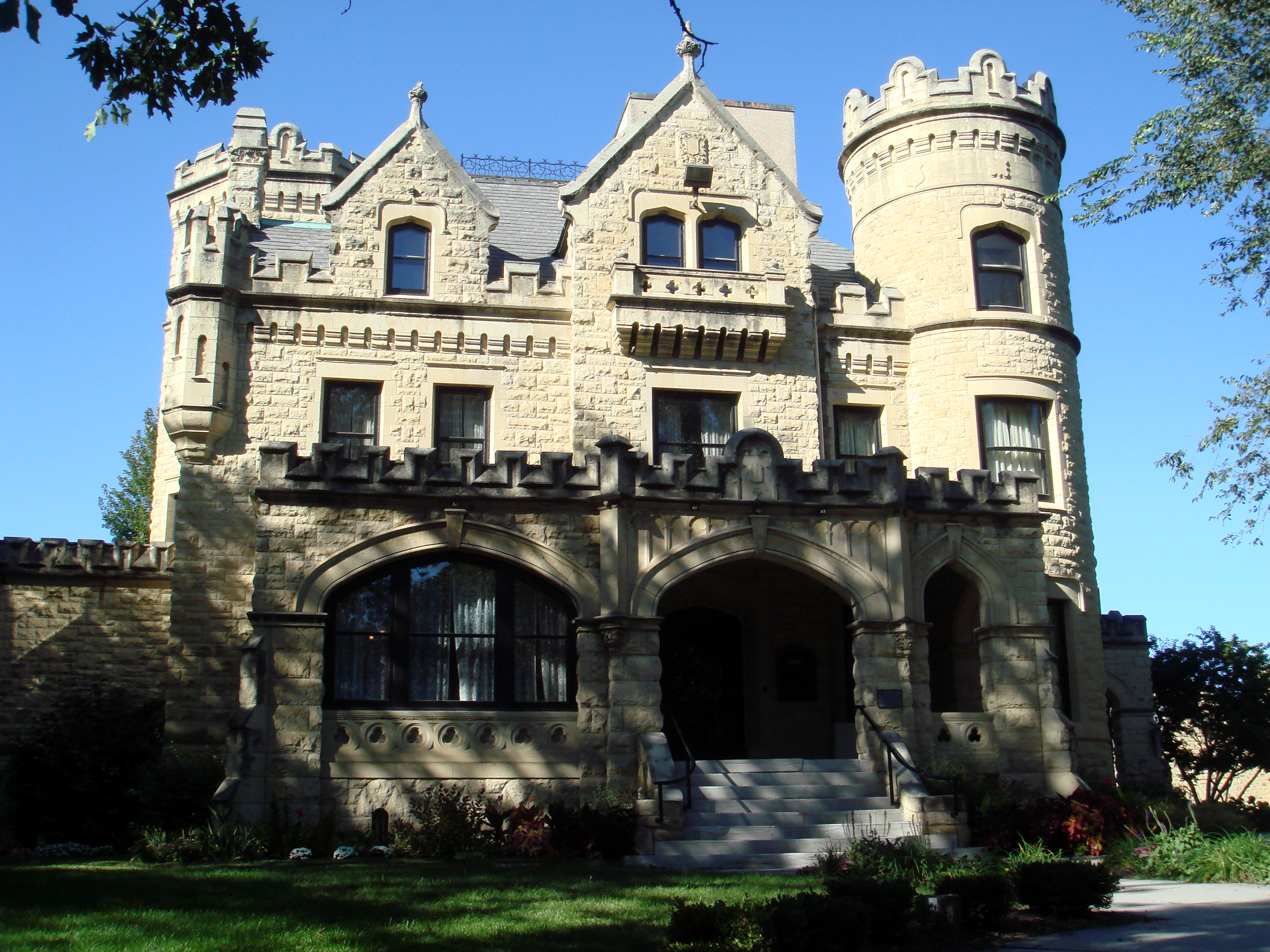 Joslyn Castle in Omaha, Nebraska.